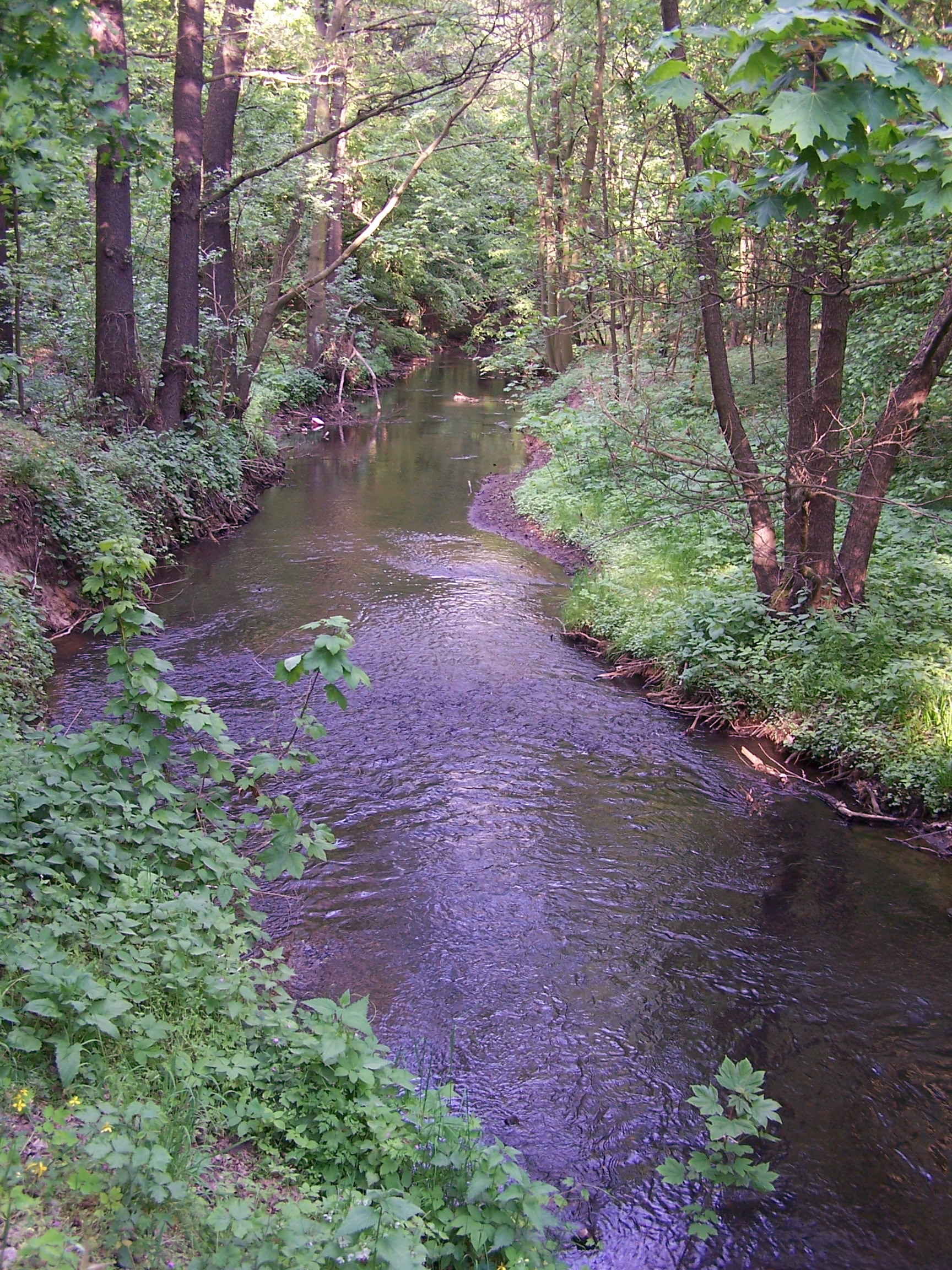 River Nuthe at Forst Zinna